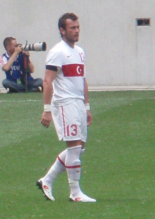 Caglar Birinci Turkish FootballerTürkçe: Çağlar Birinci